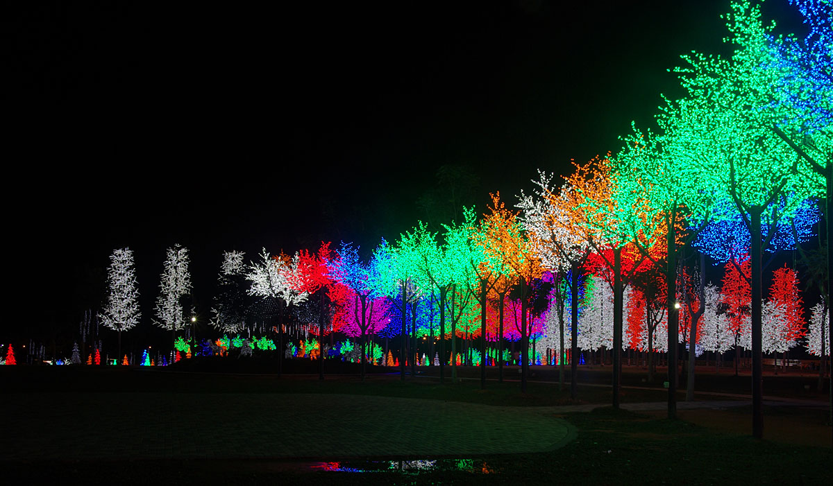 View of I-City of maple and pine trees(made of plastic), lighted up with LEDs at night.